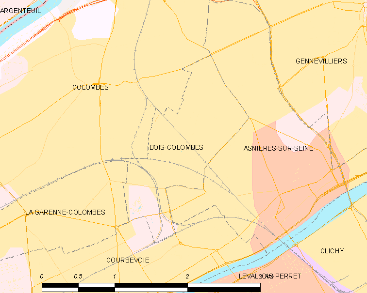 Map of French municipality Bois-Colombes